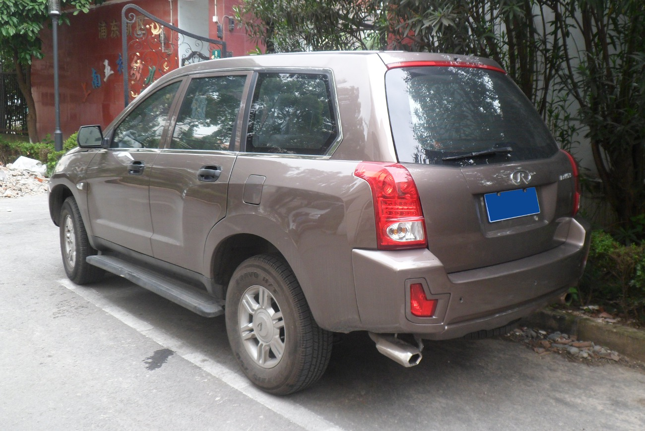 Rely X5 photographed in Shanghai, China.